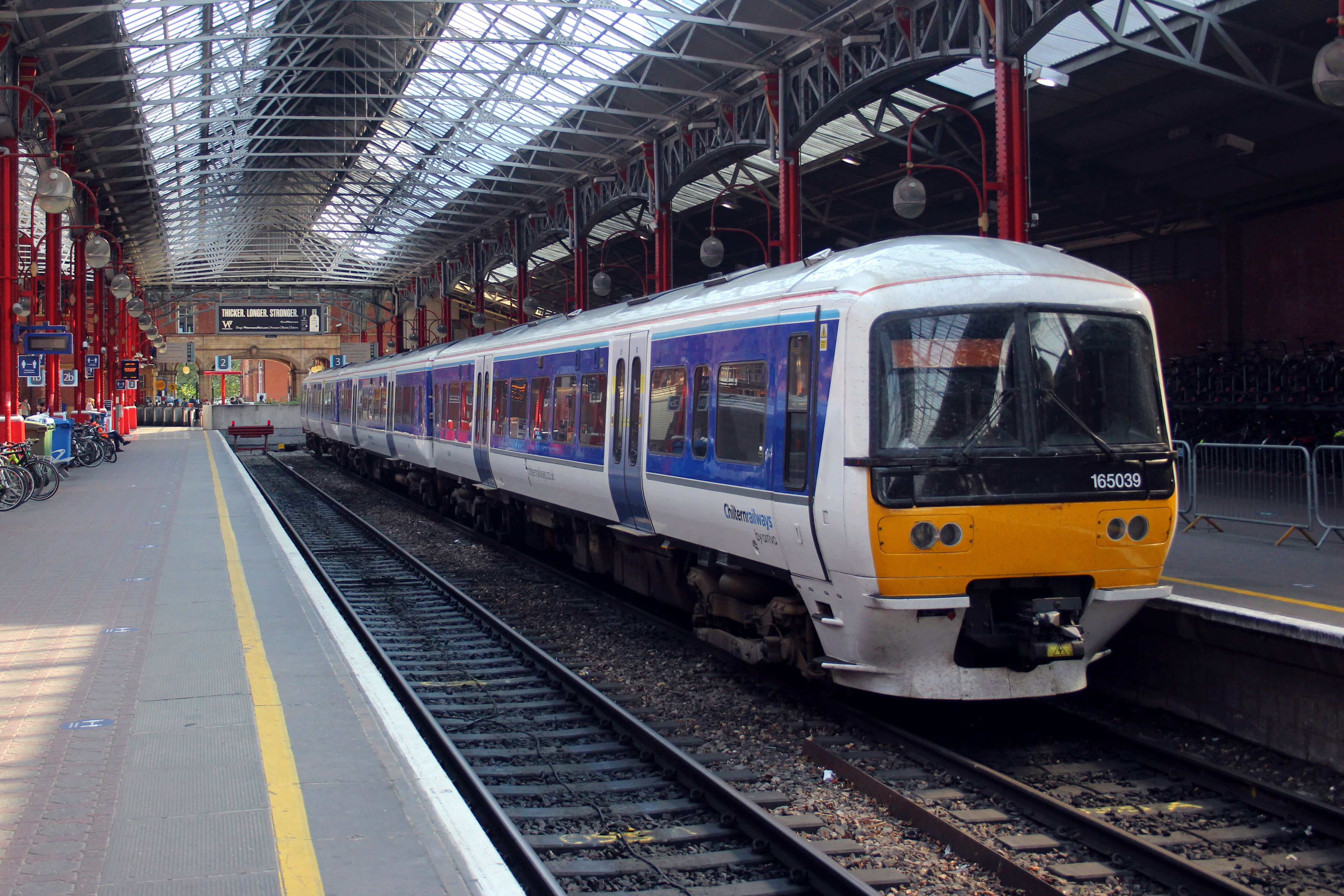 A Chiltern Railways Class 165 at London Marylebone, this set (number 165039) is in the revised Chiltern Railways livery.